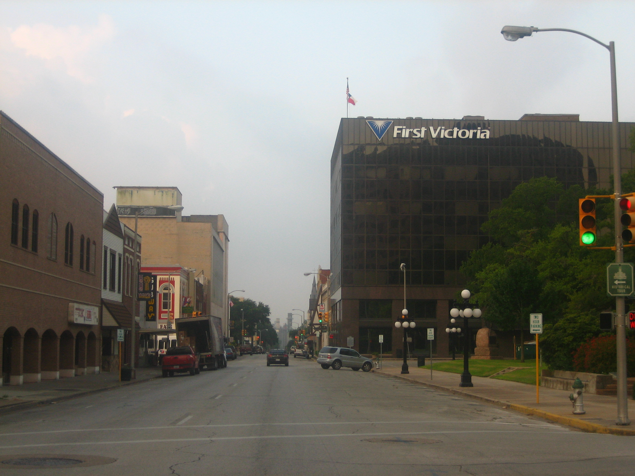 I took photo on July 31, 2008.Billy Hathorn (talk) 23:32, 17 August 2008 (UTC)